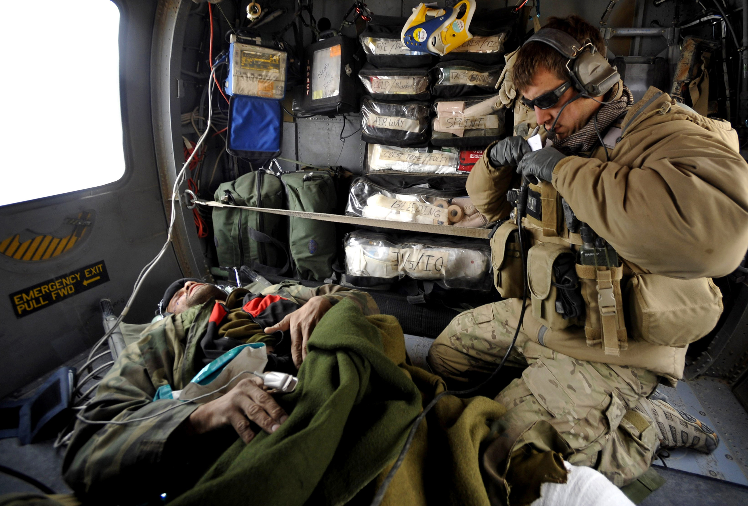 A pararescueman provides medical attention to an Afghan who has suffered gunshot injuries, December 8, 2009. The pararescueman is from the 66th Expeditionary Rescue Squadron deployed to Camp Bastion, Afghanistan.